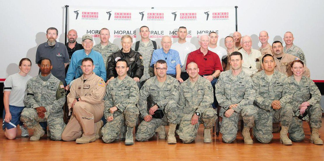 Neil Armstrong is in the middle row, second to the left (viewer's right), wearing the cream-colored shirt. Immediately to Armstrong's right is Eugene Cernan (red shirt), and immediately to the right of Cernan is Jim Lovell (blue and white striped shirt).